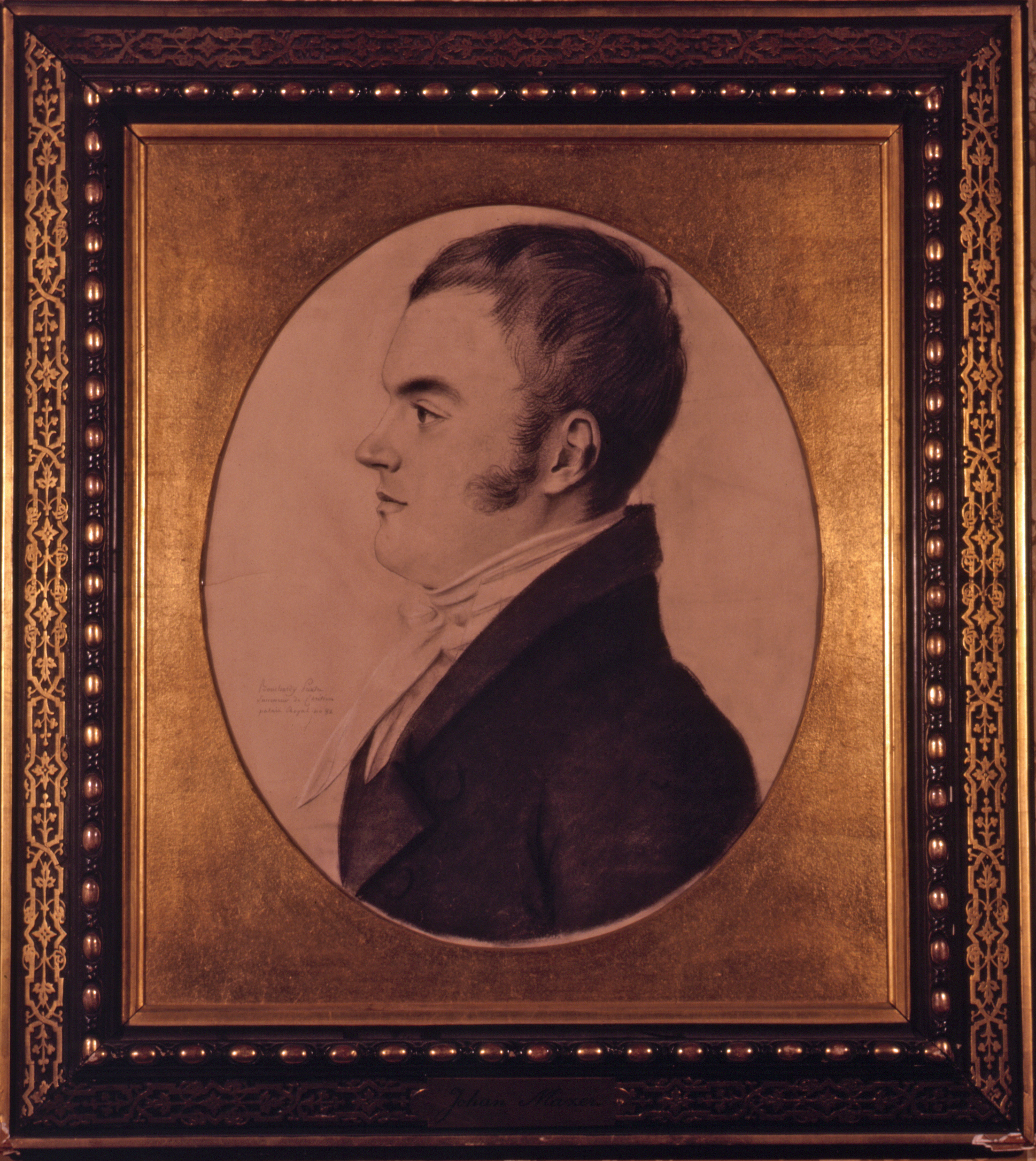 Portrait of Johan Mazer. Charcoal drawing by Etienne Bouchardy, 1820s.From the collections of the Music and Theatre library of Sweden.